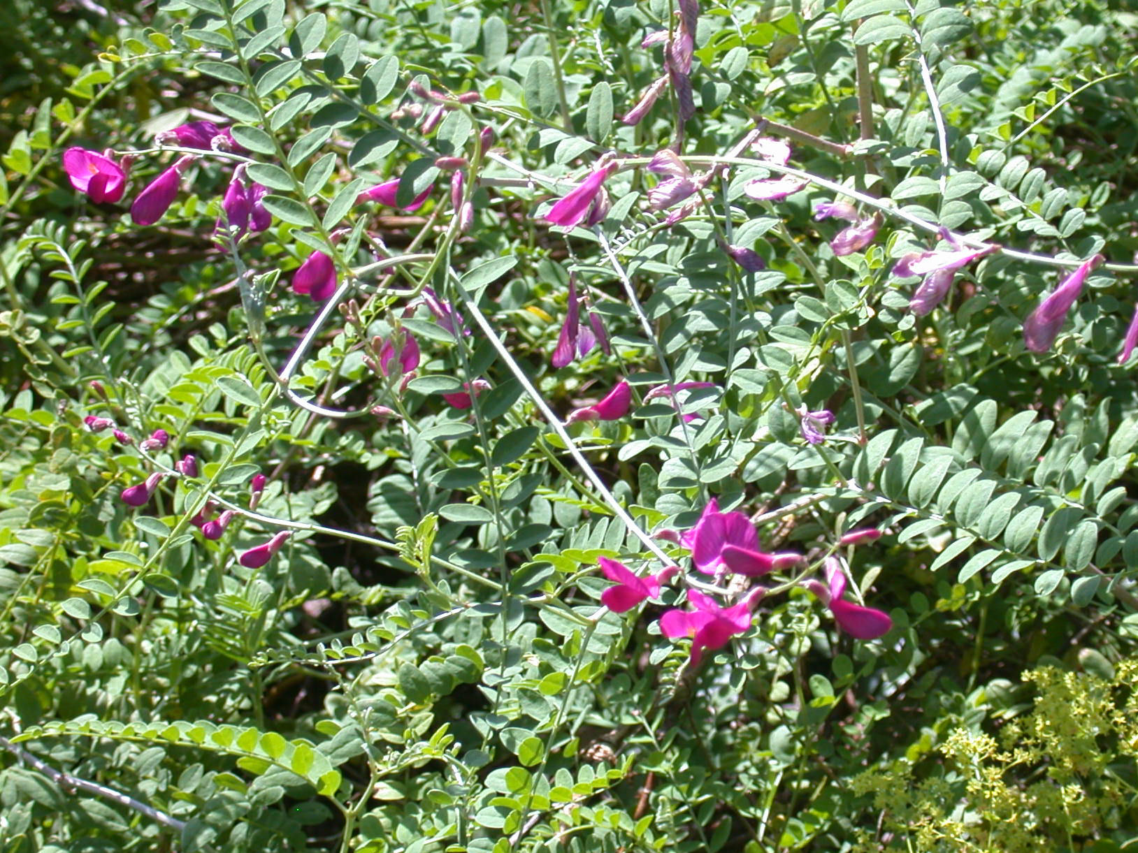 Specimen labelled: "Hedysarum multijugum. Leguminosae. E & C Asia. Introduced (i.e. to Britain) 1883"